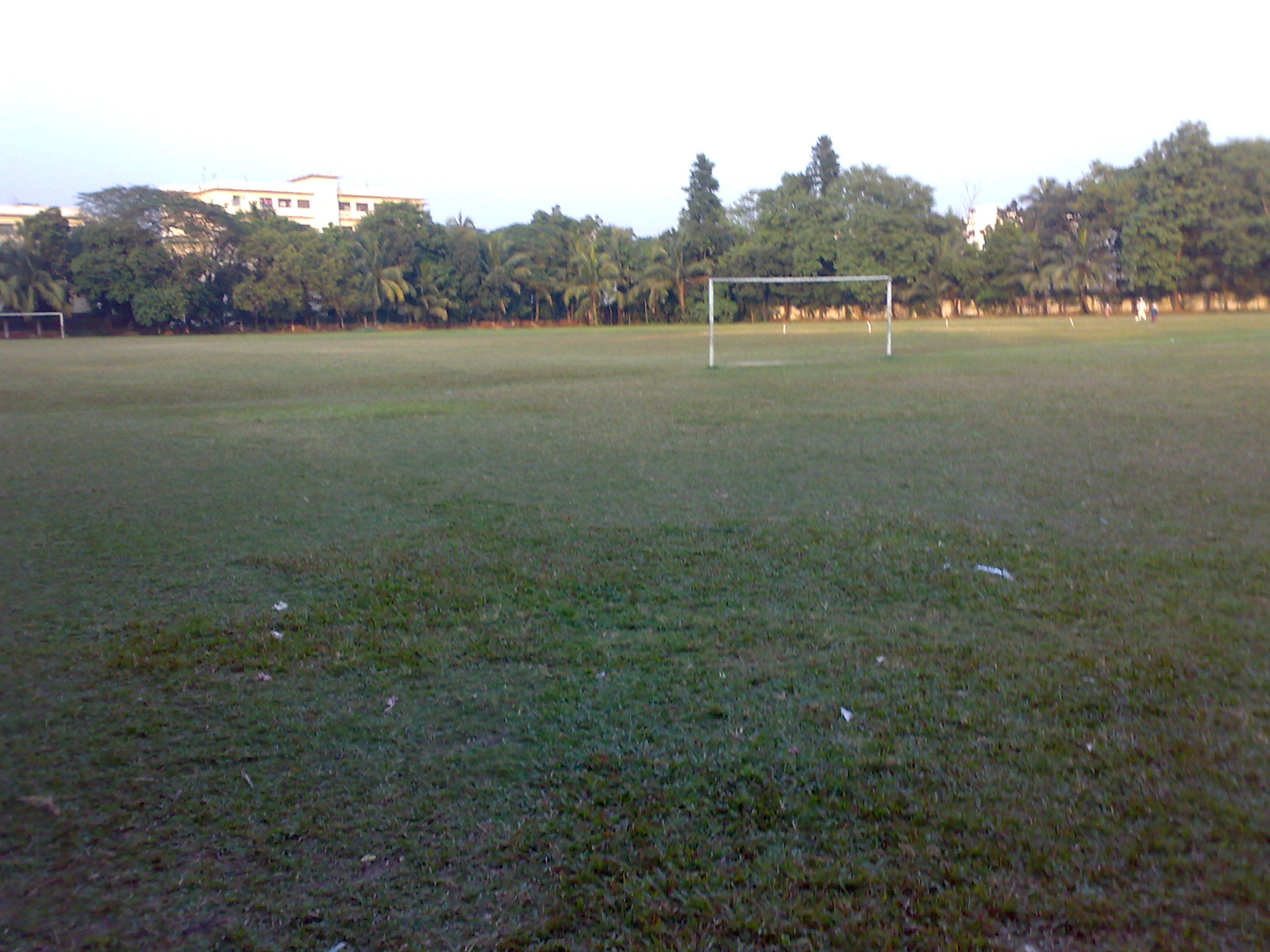 this is the playground where we play football after classes